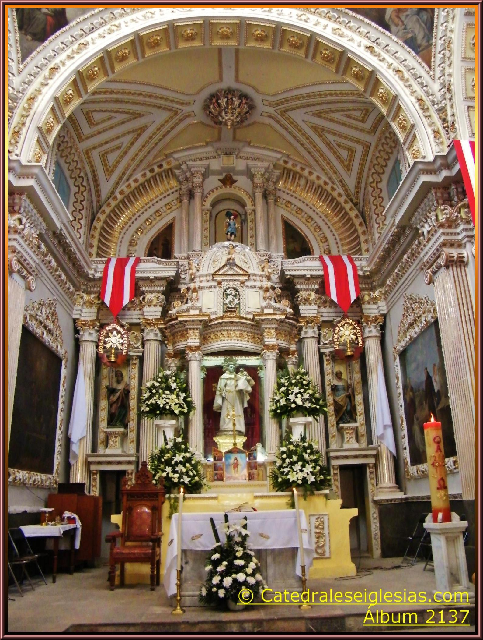 By Catedrales e Iglesias Album 2137